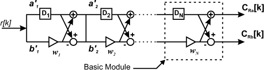 Complementary pairs of sequences correlator proposed by Popovic to reduce the calculations involved in the process